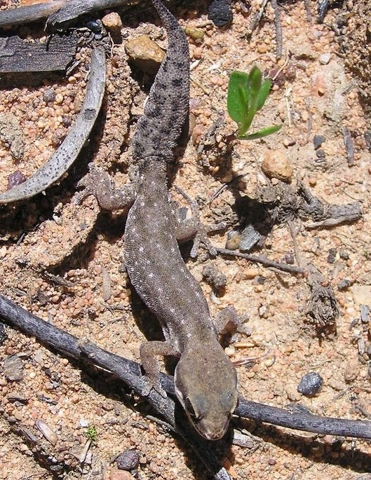 Ocellated thick-toed Gecko. Pachydactylus geitjie. Photo taken in Cape Town.